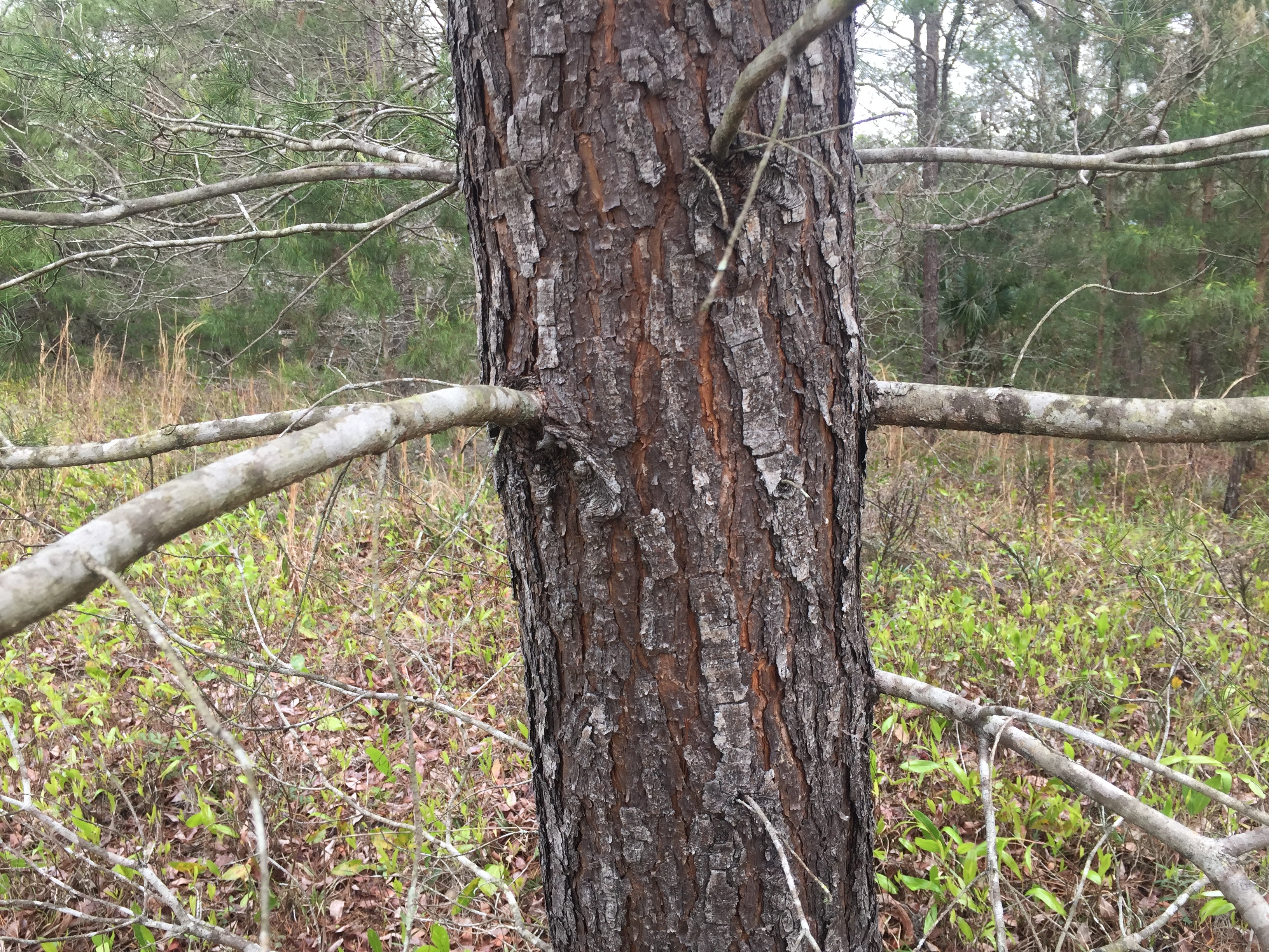 Sand Pine specimen from Rock Springs Run State Reserve in Lake County, FL.